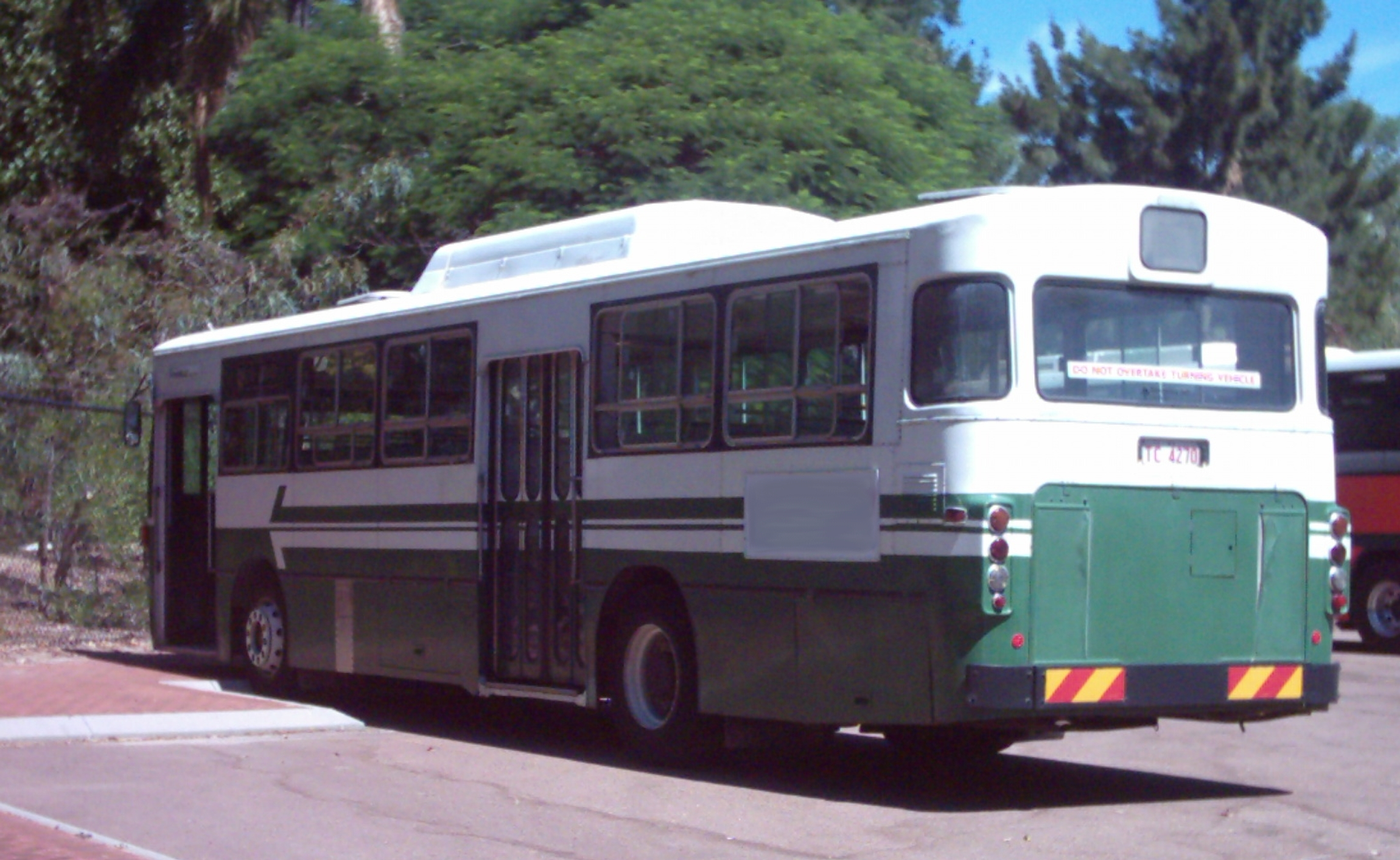 Mercedes-Benz O305 bus painted in original Metropolitan Transport Trust (MTT) livery. Body was built by Howard Porters(HP) in 1979. original fleet number 264.